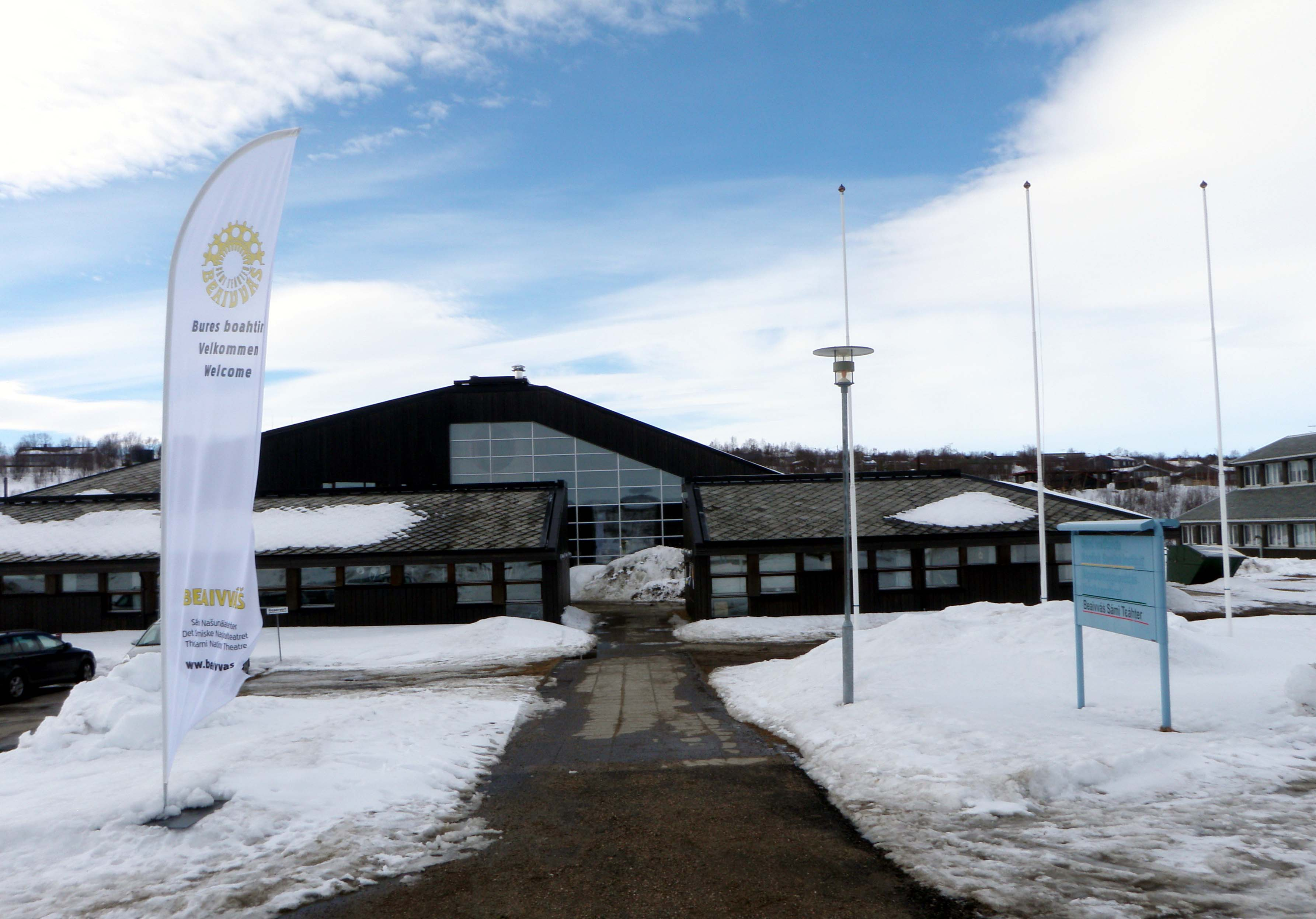 Beaivváš Sámi Theatre, in Kautokeino, Finnmark, Norway.